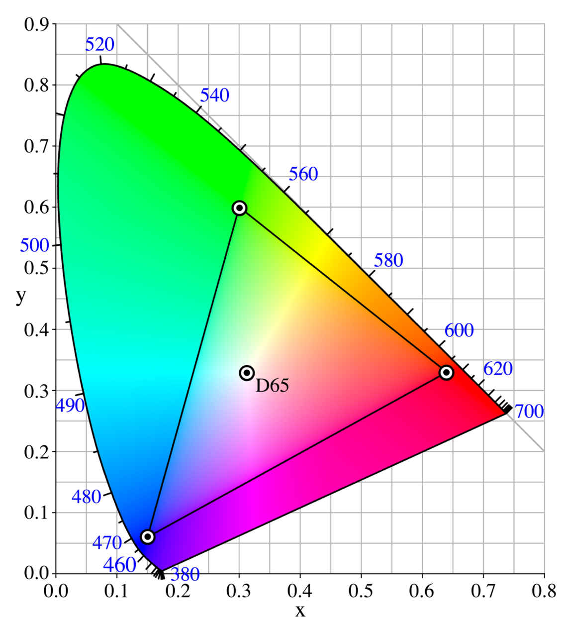 CIE 1931 xy chromaticity diagram showing the sRGB gamut and the D65 white point. Please see File:CIExy1931.png for a description of how this image was made.